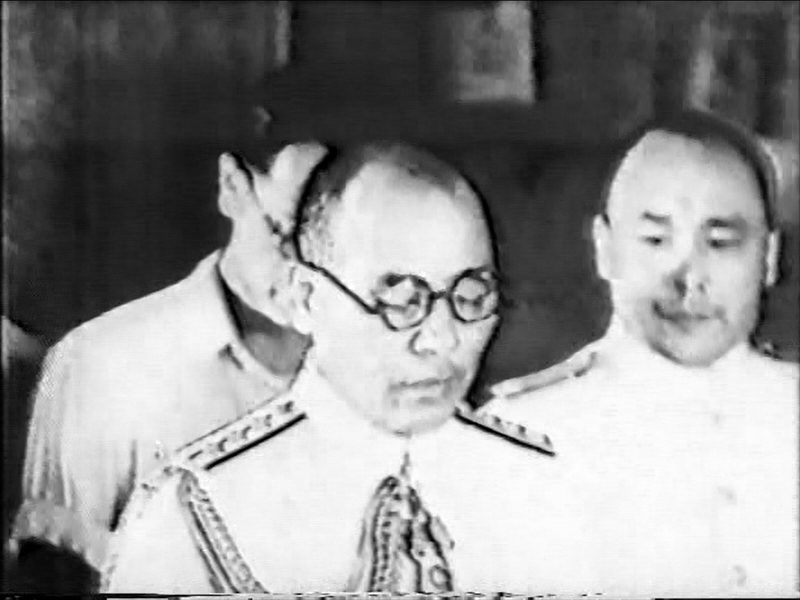 Etsuzo Kurihara (Admiral of the IJN). He announced that the Japanese army of Saipan has been wiped out. From newsreel.